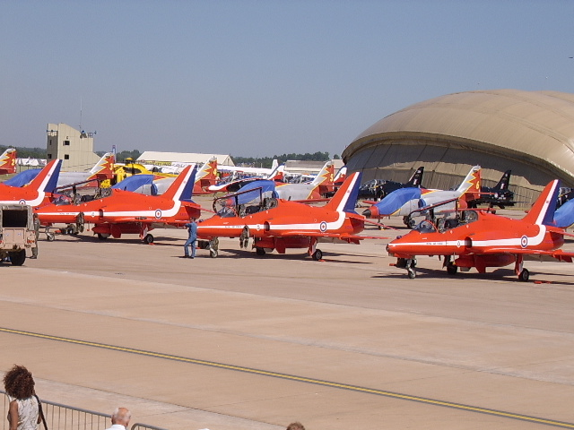 Red Arrows parked, at the Royal International Air Tattoo (RIAT), RAF Fairford, in Gloucestershire, England